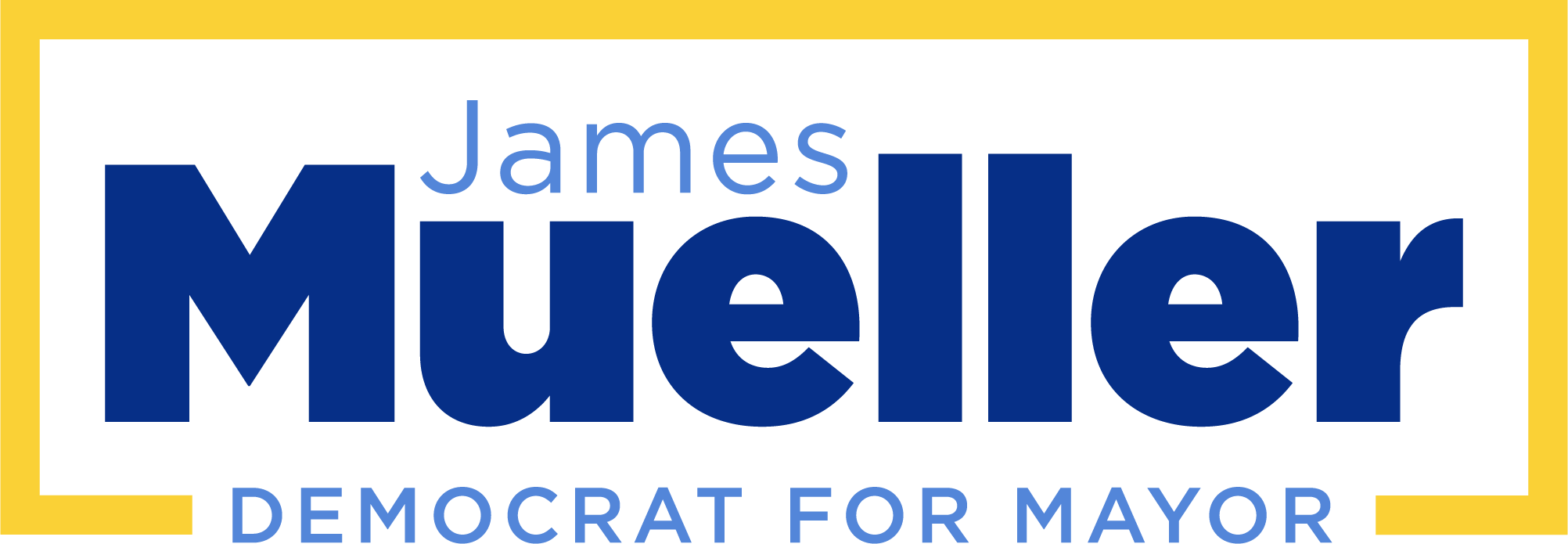 James Mueller 2019